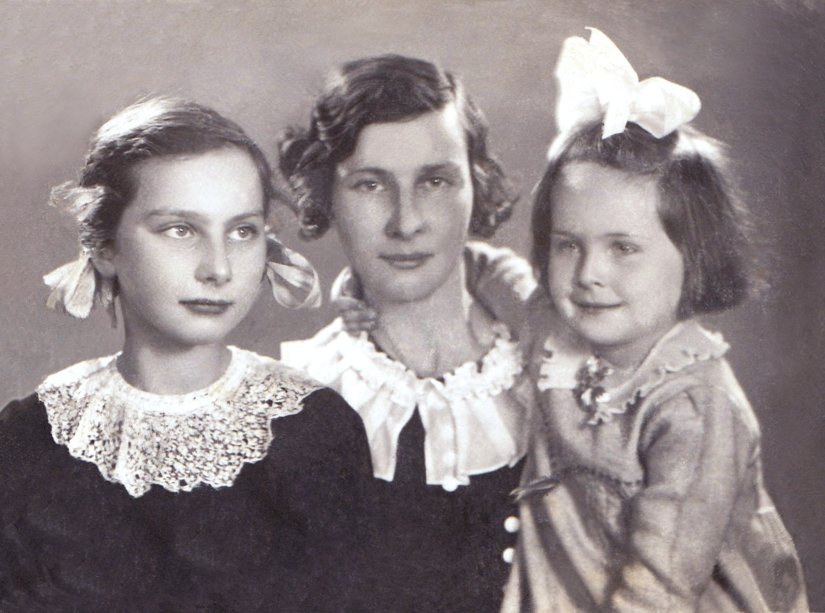 Maria Piskorska with daughters in 1942